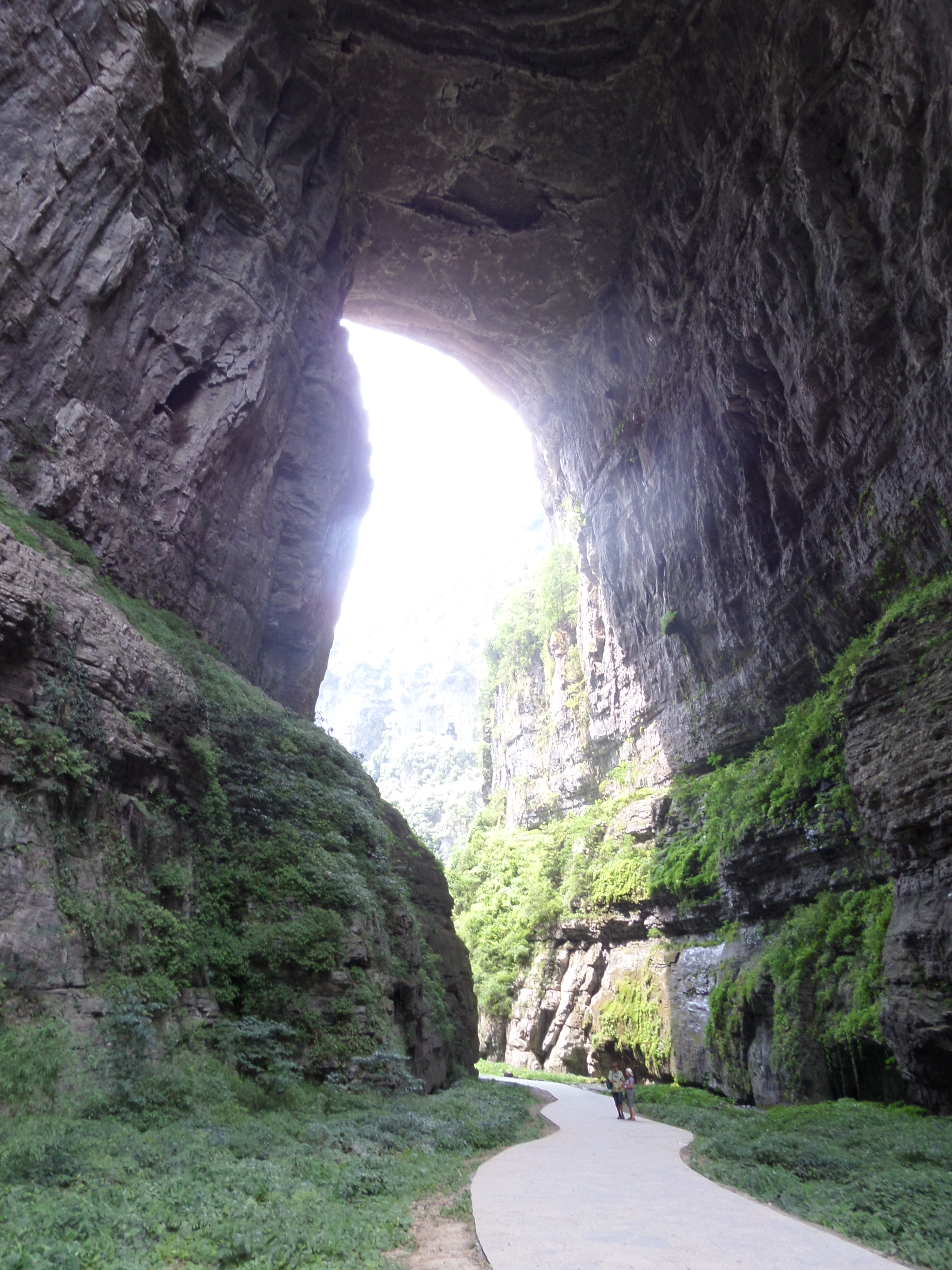 Three Natural Bridges - Sky Dragon Bridge. This bridge is the first of the three, it has two arches. Visitors descend through the first arch and can look though this one before proceeding to the other bridges.